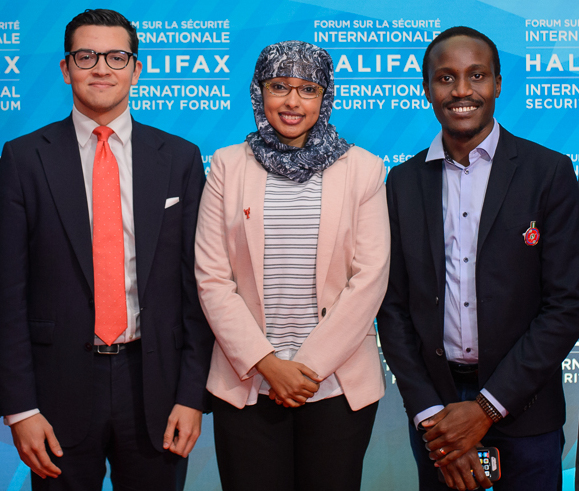 2017 Halifax International Security Forum Participants (L-R): Boniface Mwangi, Imad Mesdoua, Fauziya Ali, Tolu Ogunlesi, Japheth Omojuwa